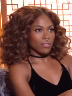 DeWanda Wise playing the Real Or Fake cocktail game.